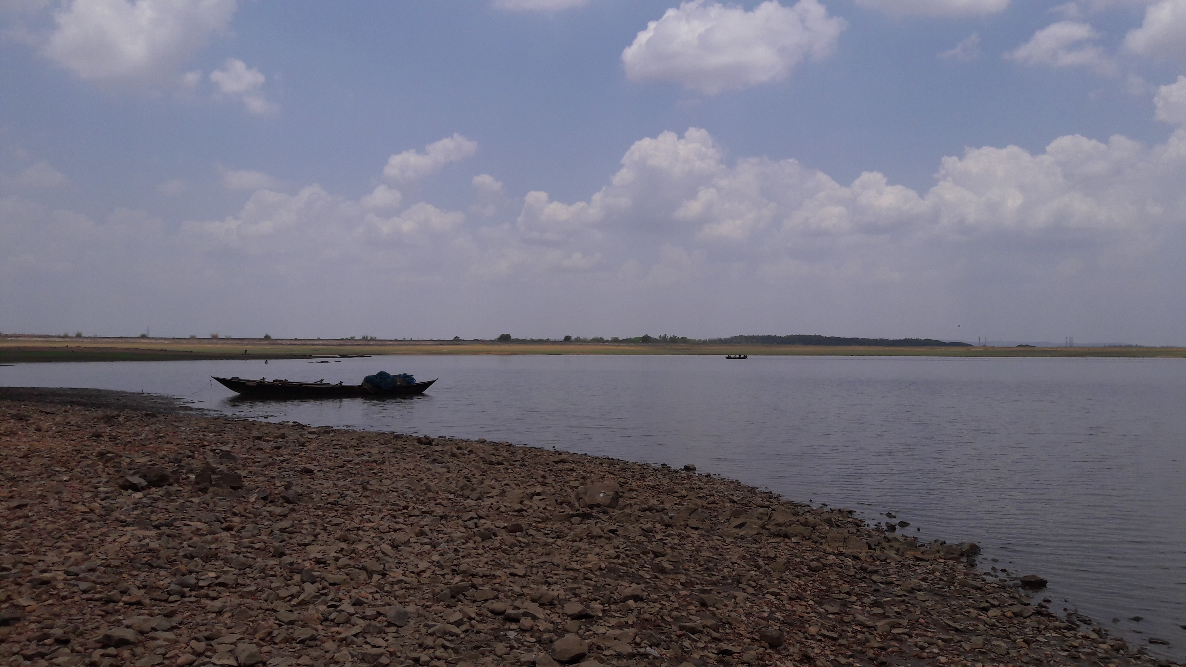 AT TIHURA SEA, SAMBALPUR, ODISHA, INDIA